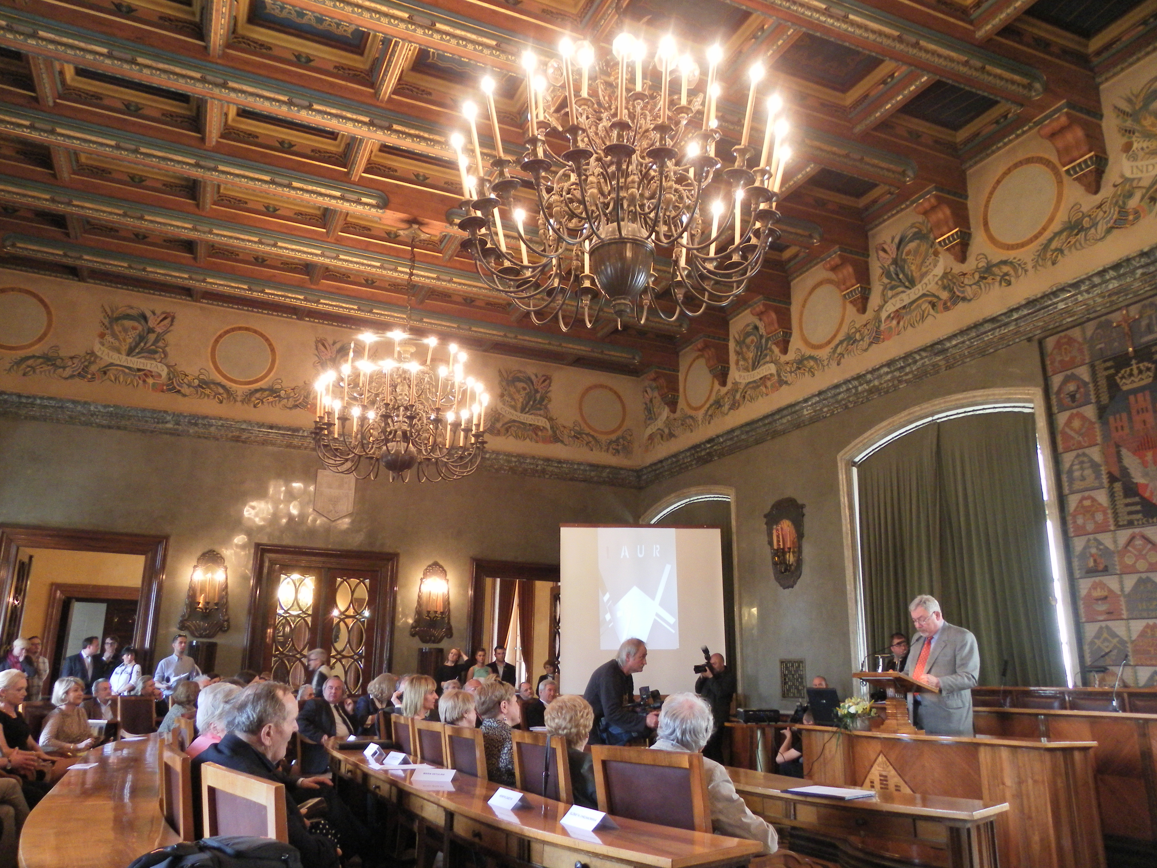 A ceremony of Laurel of Cracow of the XXI Century. Speaking president of the city, Jacek Majchrowski.